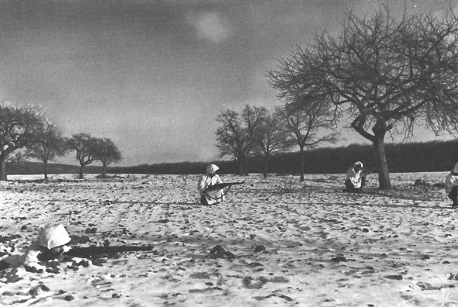 11th Infantry Regiment attacking towards Haller, Luxembourg